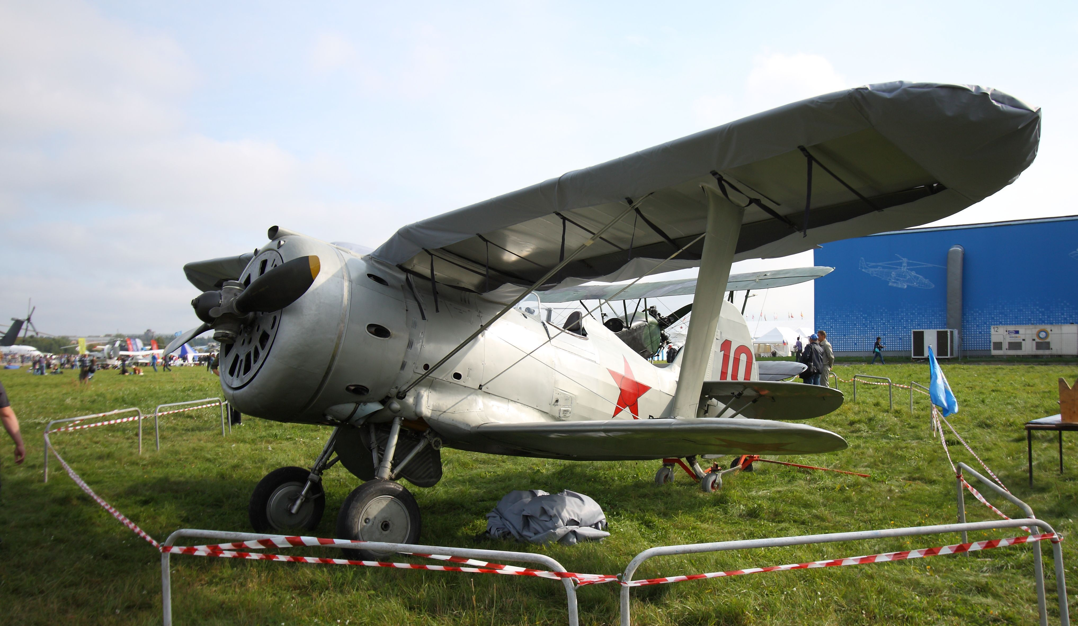 Polikarpov I-15 (The international aerospace salon MAKS-2013)